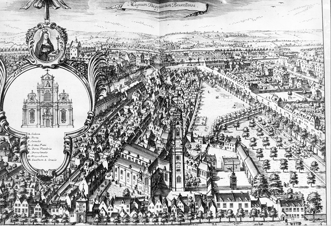 Great Beguinage of Brussels in 1720 by Jacob Harrewijn